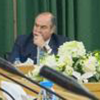 A cut out of the prime minister face